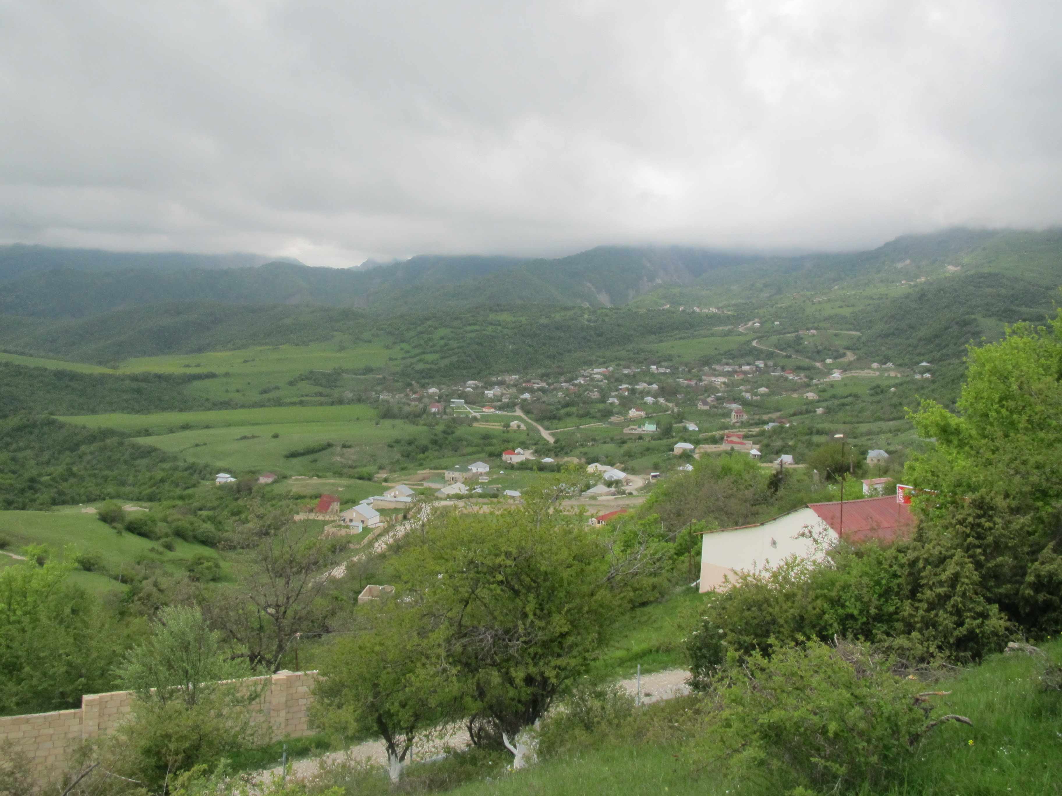 Shamakhi is a rayon of the Republic of Azerbaijan.